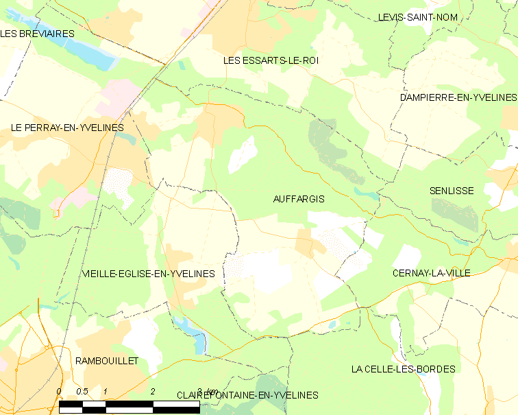 Map of French municipality Auffargis